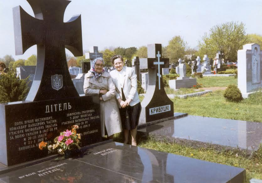 Могила Дітеля на православному цвинтарі у Баунд-Бруці. Поряд дружина Євфросинія з подругою.